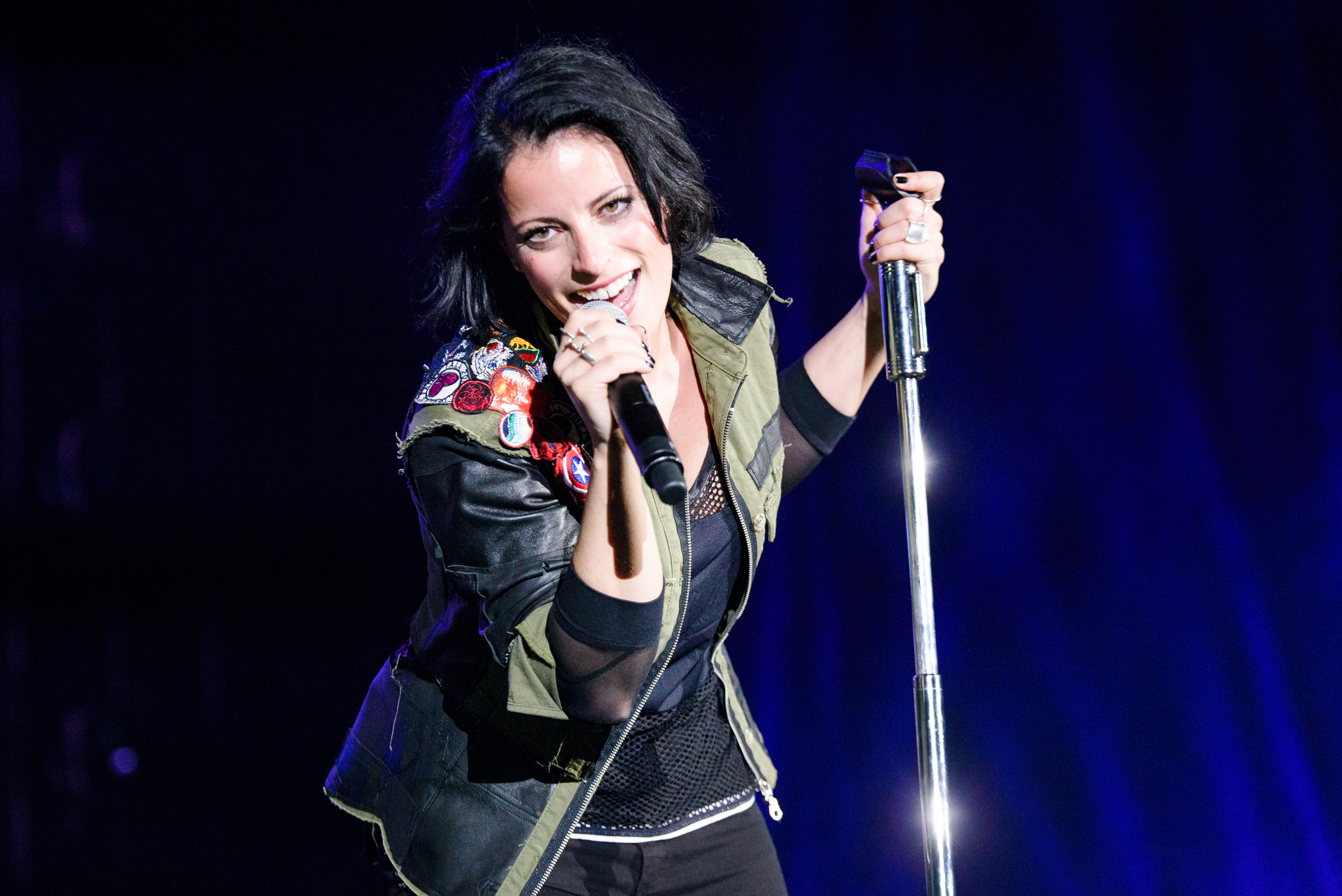 Silbermond Live @ Munich 2016